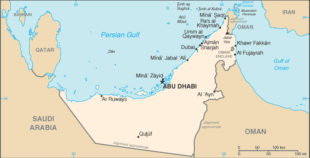 Map of the United Arab Emirates, showing major towns.